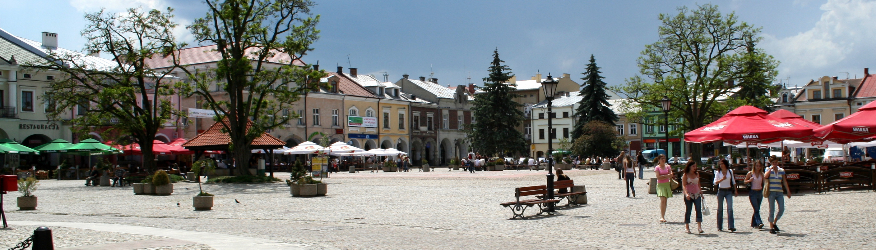 Krosno, market square